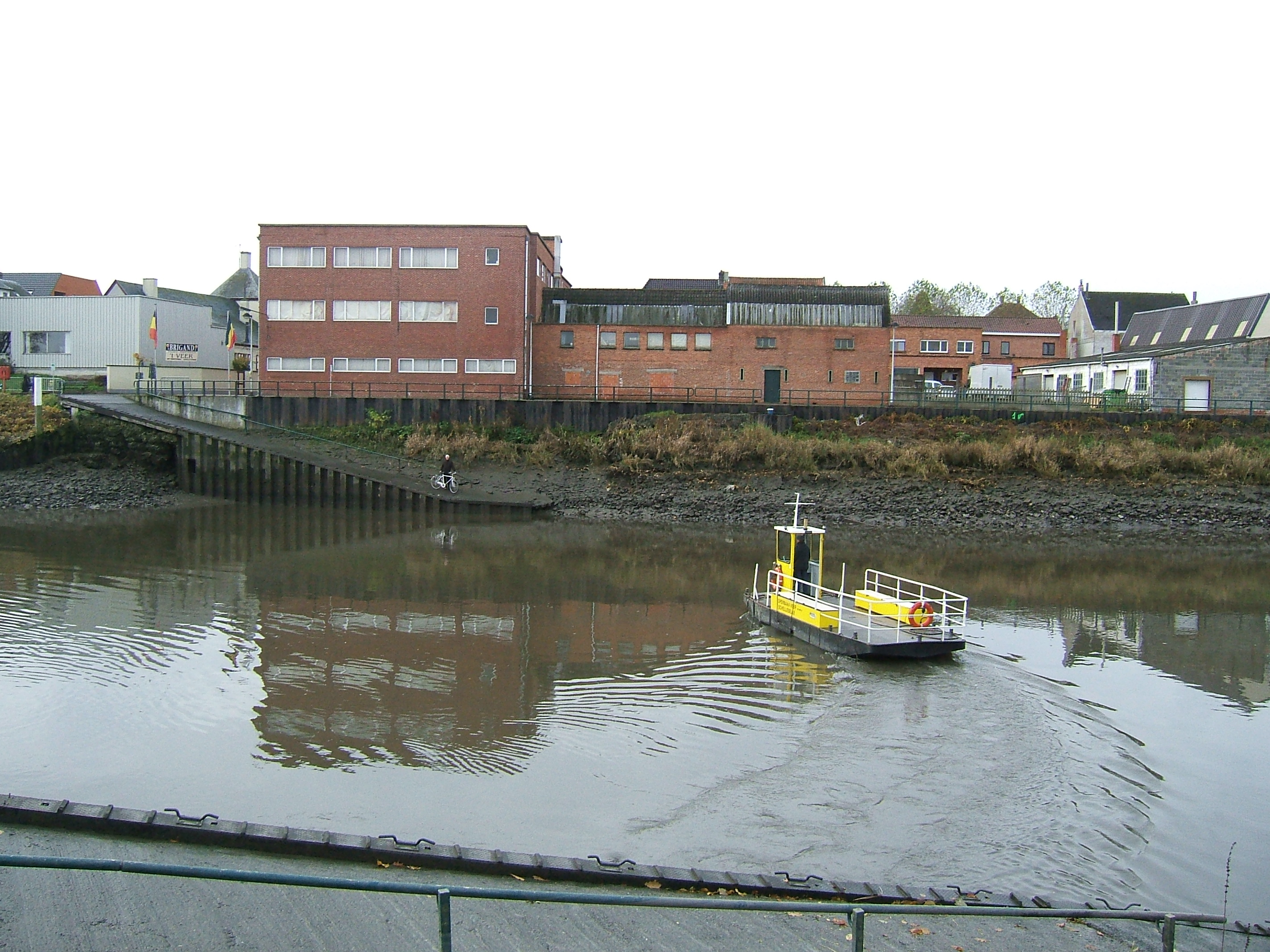 Ferry over River Scheldt at Schellebelle, Belgium